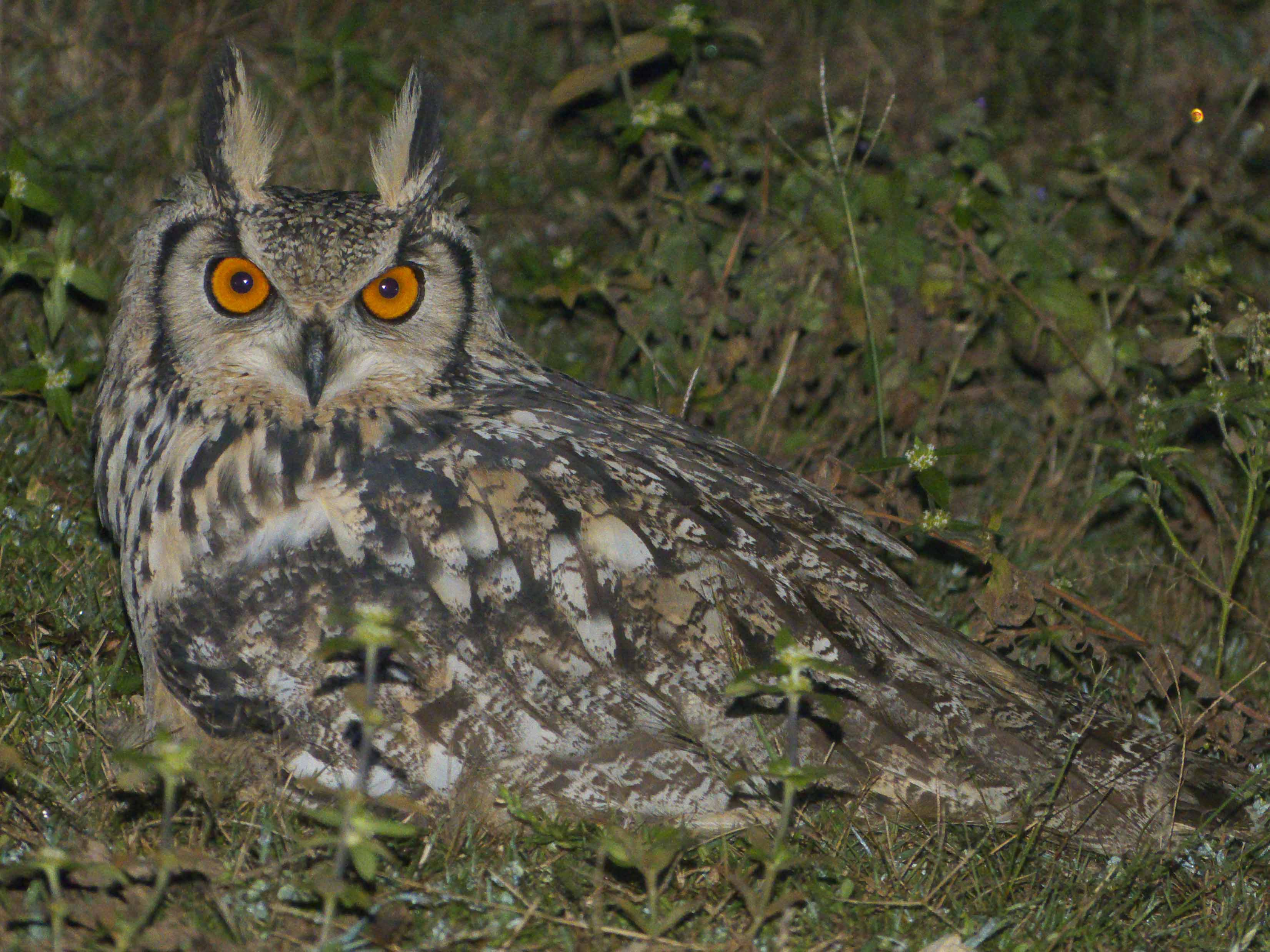 Indian eagle owl [(Bubo bengalensis)] (ছোট হুতম পেঁচা) found in Goja Buru Hills,Purulia,West Bengal,India.